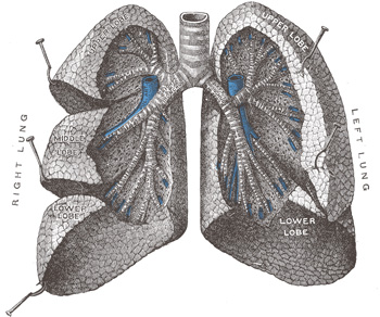 Drawing of human lungs cut open